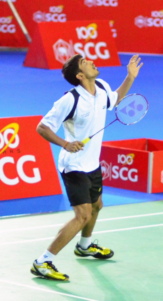 K. Srikanth